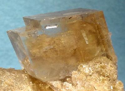 Inyoite Locality: Monte Azul deposit, Sijes, Salta, Argentina (Locality at ) Size: 7.0 x 5.5 x 4.8 cm. Inyoite is a RARE borate. This EXCELLENT and showy specimen features a sharp, 3.1 cm, very glassy and zoned, pseudorhombic crystal as the primary feature. This two-sided crystal is jauntily perched on the top or side of the specimen. The slight bruise, on one corner, is out of sight. This showy piece comes from a recent, but small find in arid, high altitude valleys of Argentina. There is minor contacting, on this essentially pristine specimen.